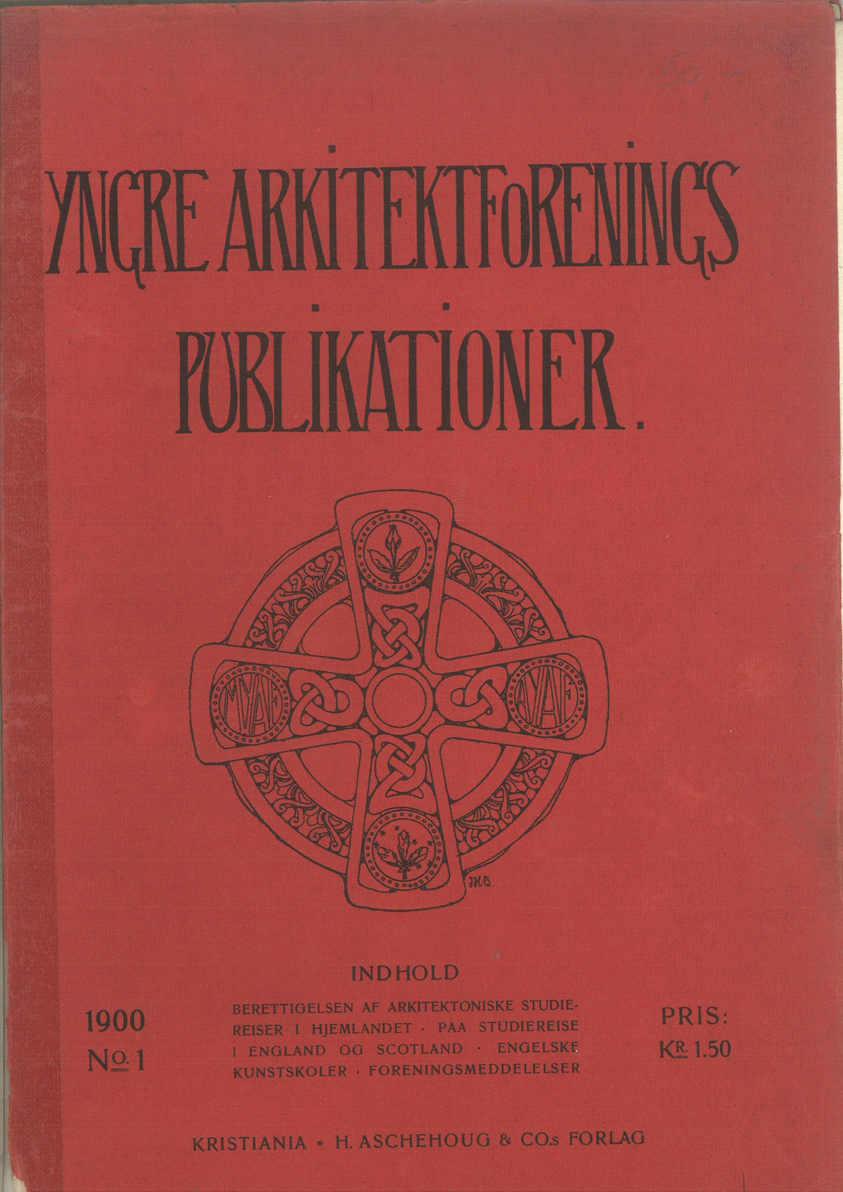 Front cover of a publication for the organisation Yngre arkitektforening (Young(er) architect association. The name is strange in Norwegian as well, one should expect it to be Yngre arkitekters forening, which would be: Young(er) architects' association). Only one issue published.